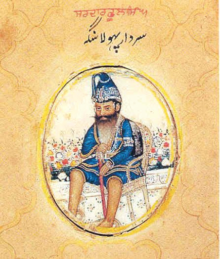 Akali Phula Singh (1761-1823) was a prominent Nihang Saint-Soilder during the Sikh Raj. Akali Phula Singh was the Jathedar of the Akal Takht and is credited for extending the boundaries of Ranjit Singh's empire. The inscription in Gurmukhi (red letters) reads Sardar Phula Singh